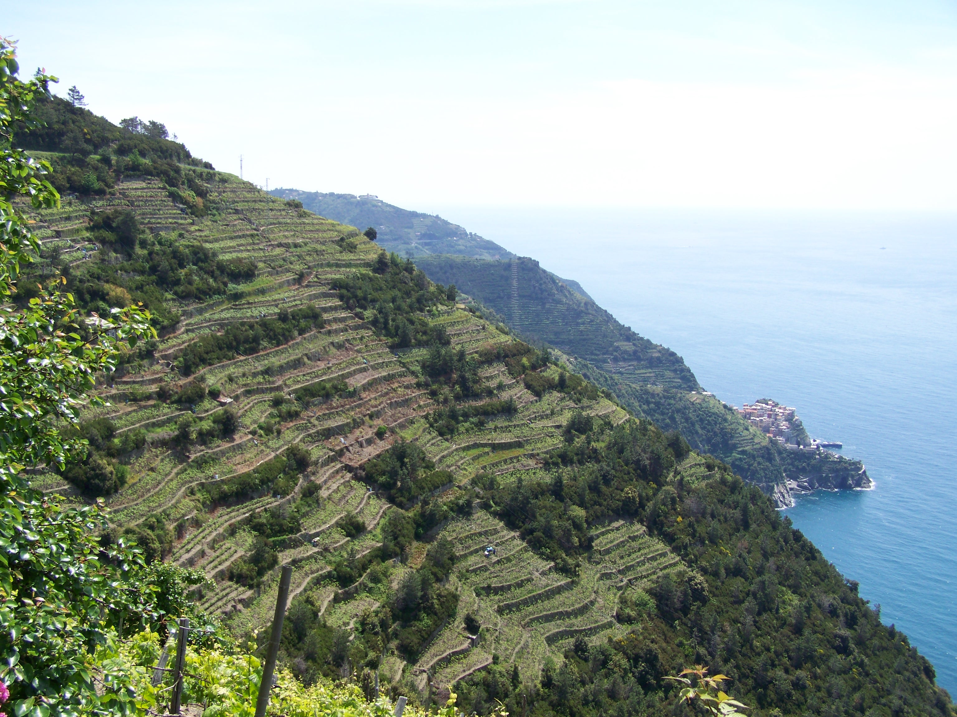 Particular of vine's cultivation